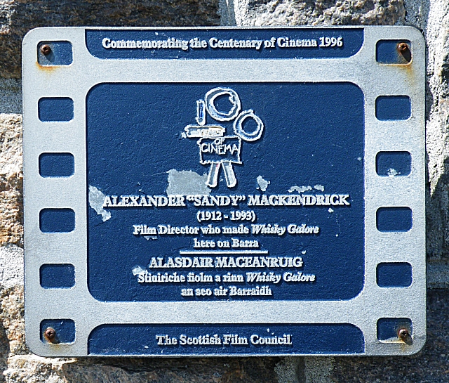 Plaque to Sandy Mackendrick Mackendrick is commemorated here in Castlebay for his film of Compton Mackenzie's 'Whisky Galore'. The film was shot on the island of Barra and released in 1949. The story is based on the real-life wreck of the SS 'Politician' and her cargo of whisky off the island of Eriskay in 1941, and the islanders' efforts to salvage the whisky.